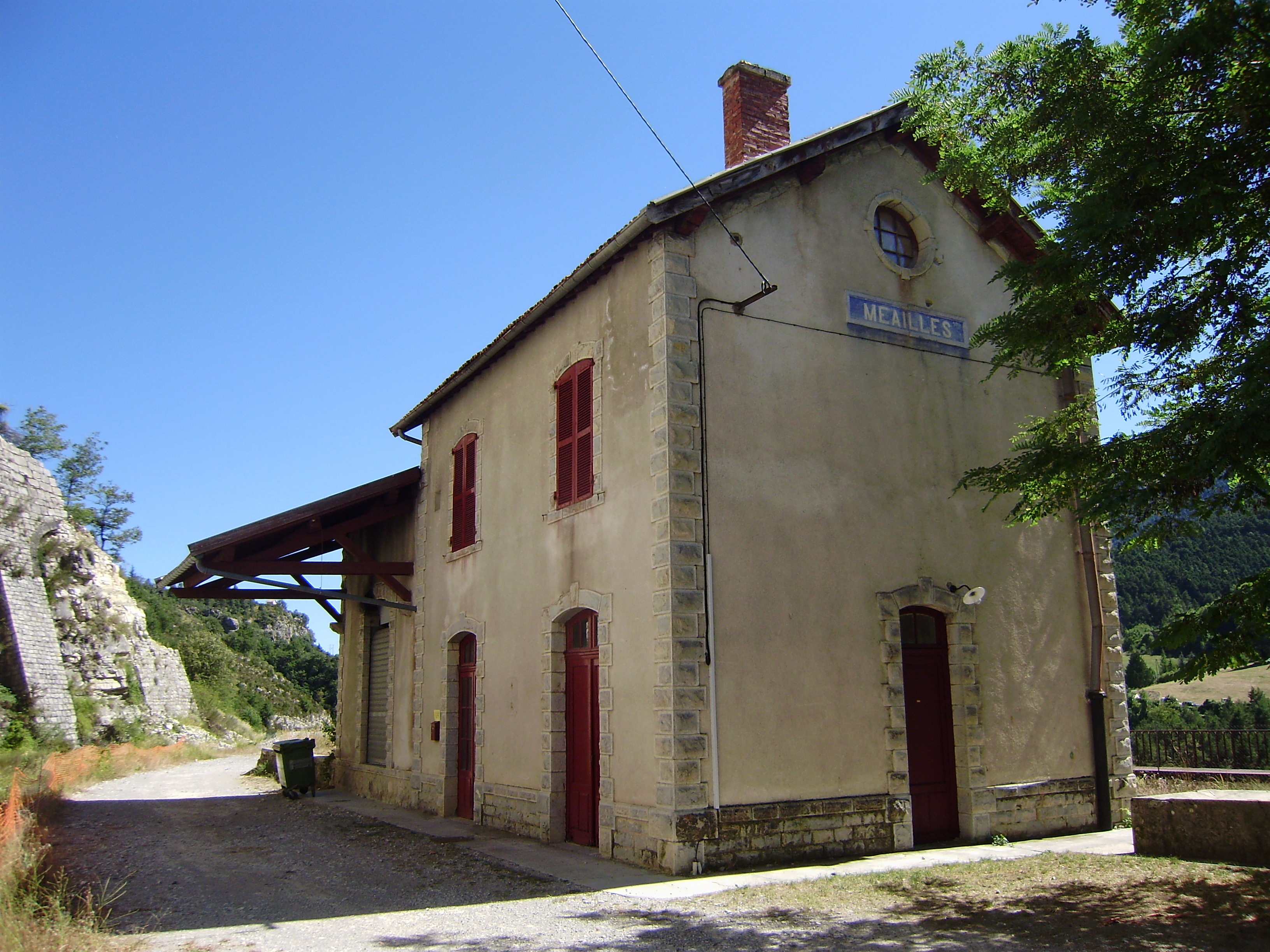 The station of Méailles